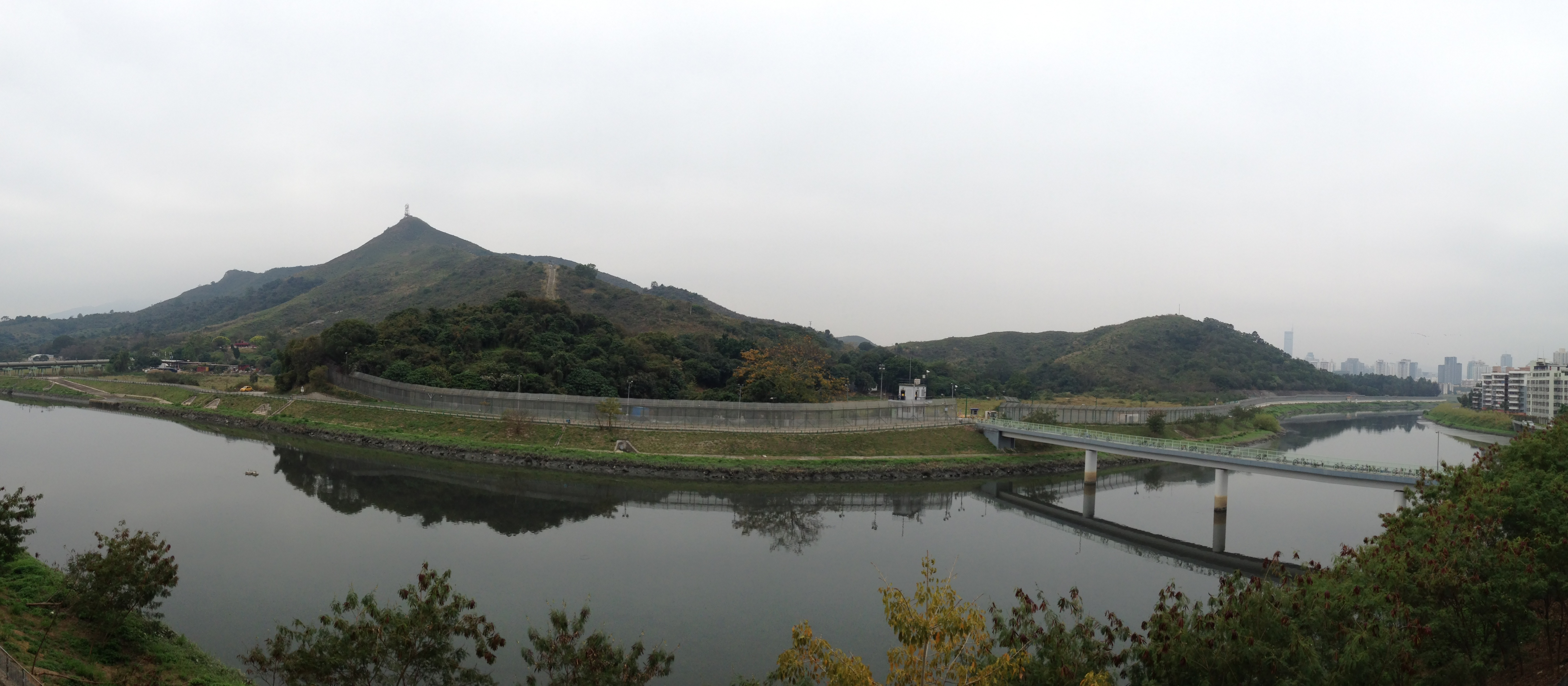 HK Shenzhen River